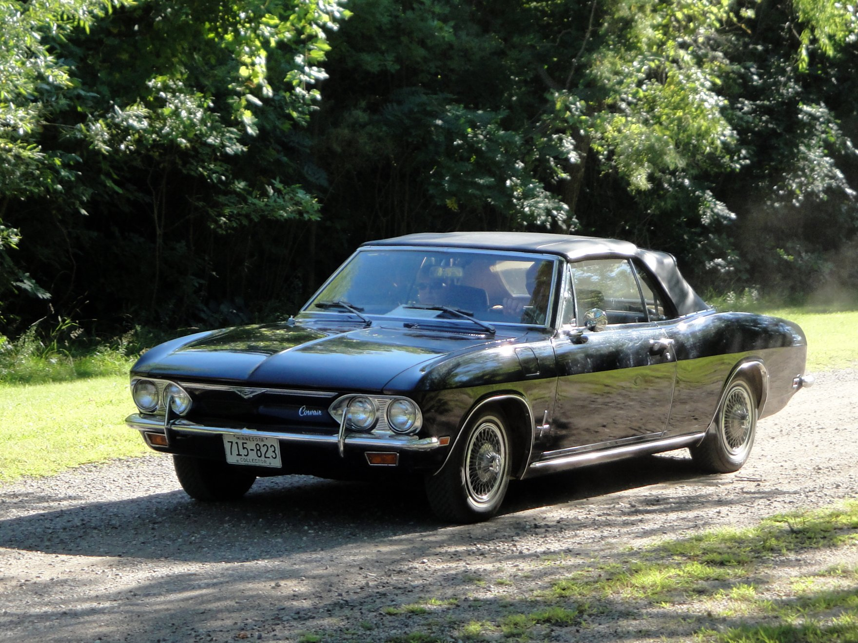 Willmar Car Club Annual Picnic, Lake Koronis Regional Park